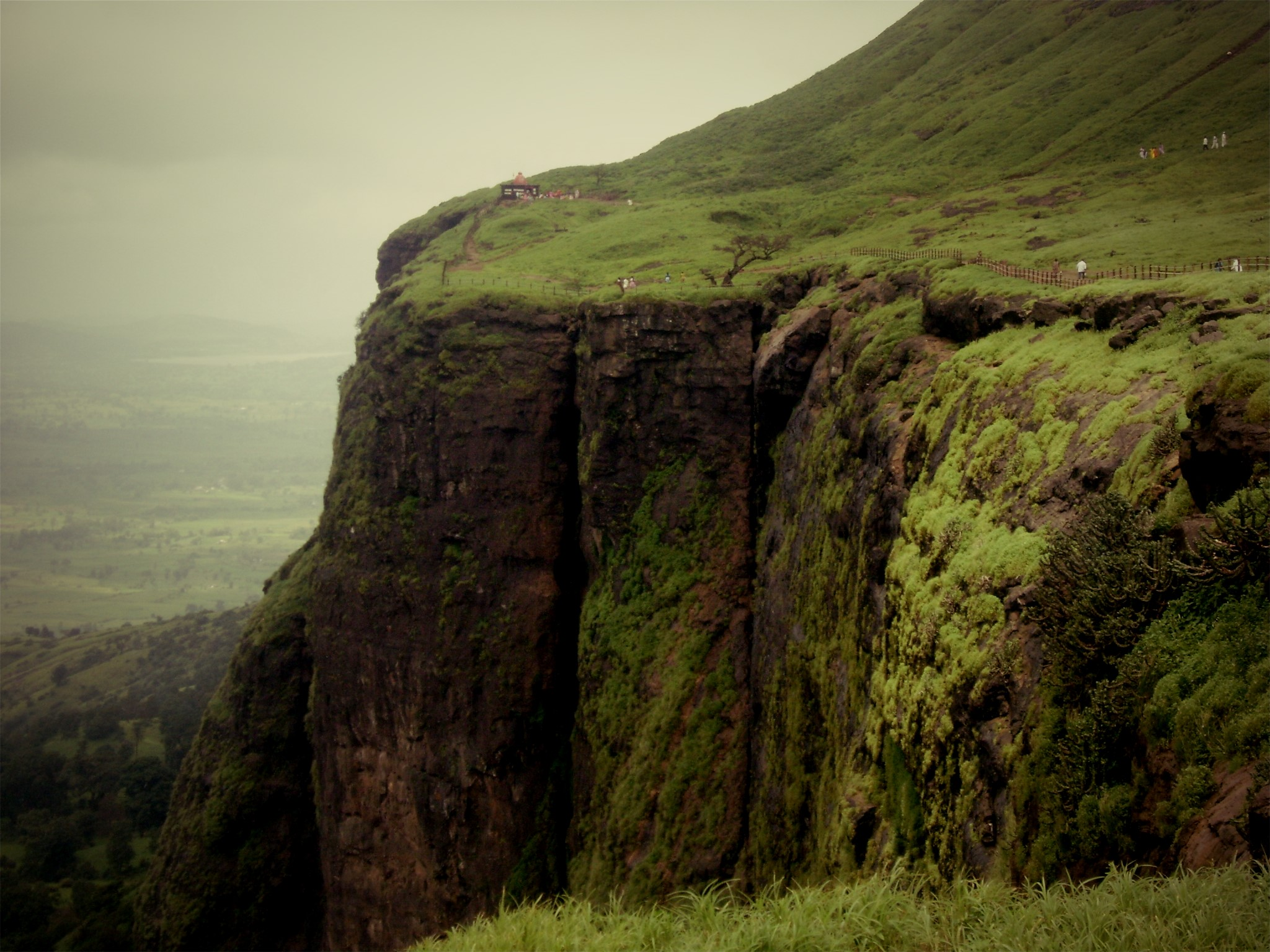 Brahmagiri Hills, Cliff side view.